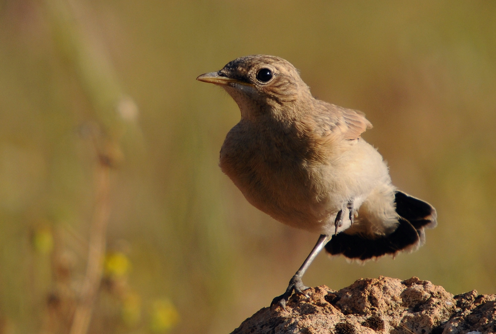 Isabellina wheatear Kurdî: Çêlika Çûkê "Çilferşik" ji Dengiza